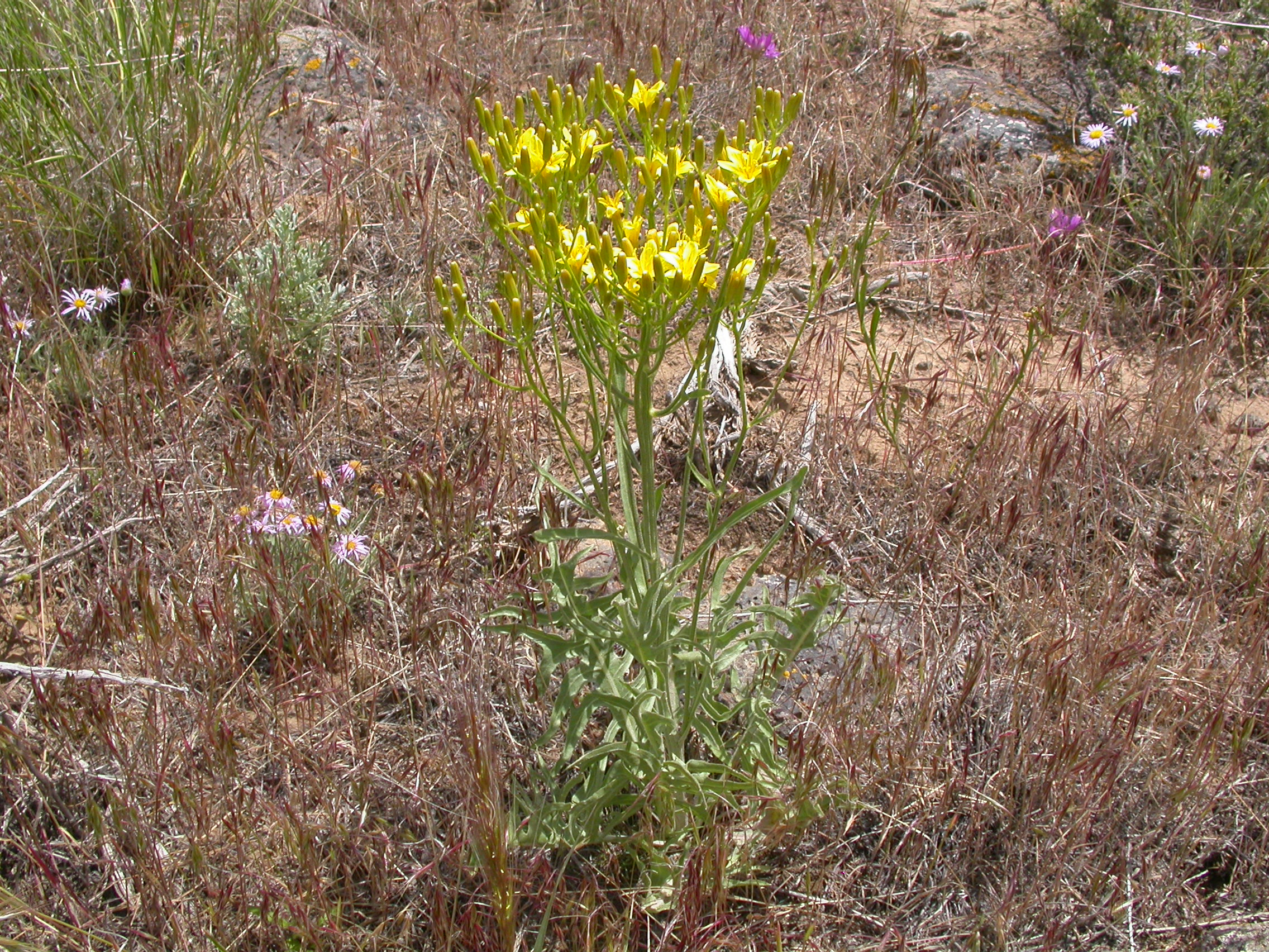 This is very common forb throughout all elevations of the sagebrush vegetation in this area.